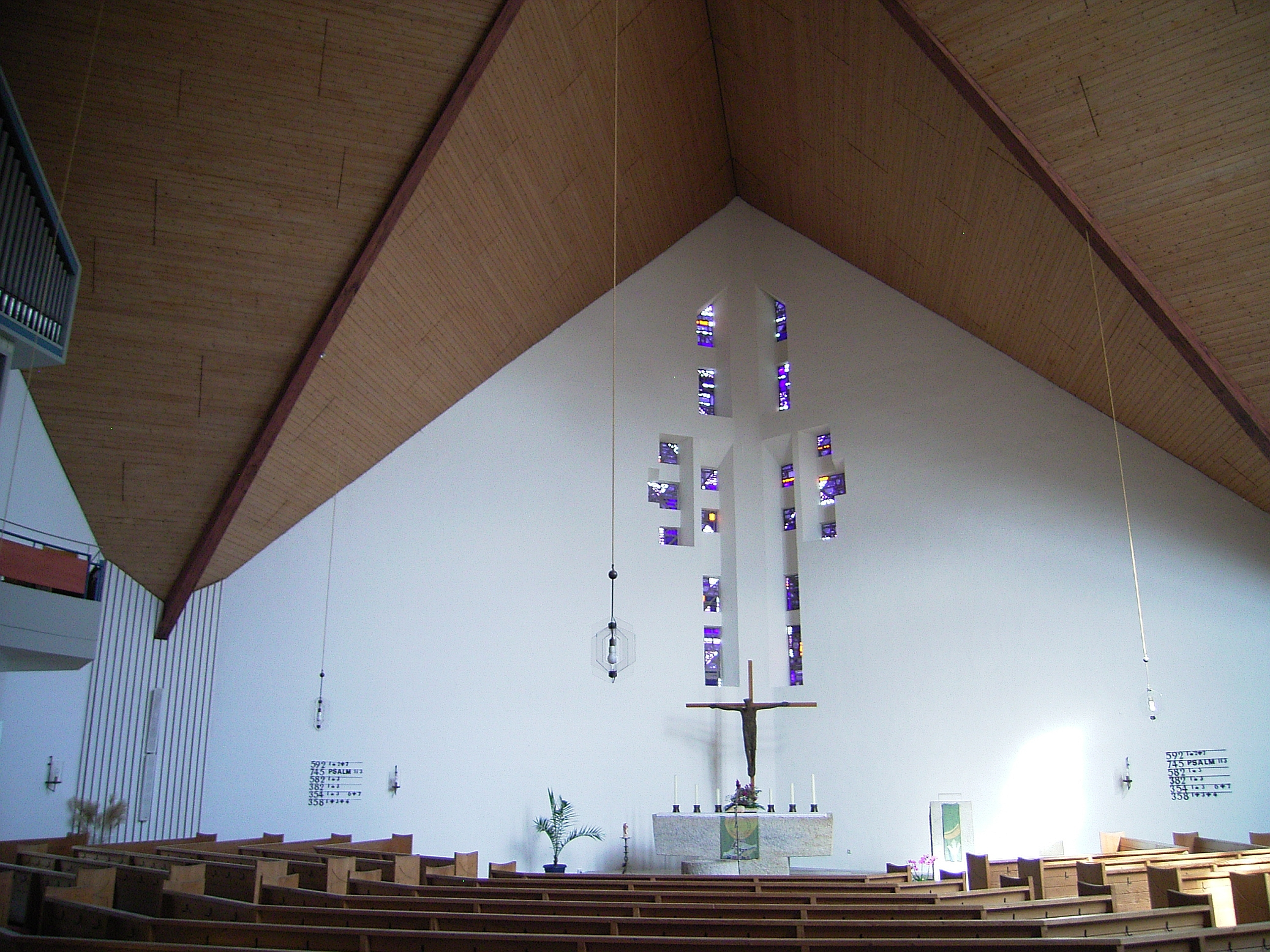 Versöhnungskirche, Ulm, quarter Wiblingen, Germany